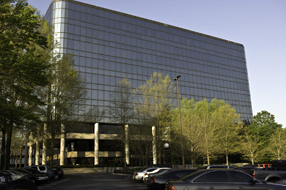 exterior of the Atlanta FBI field office in Chamblee, Georgia